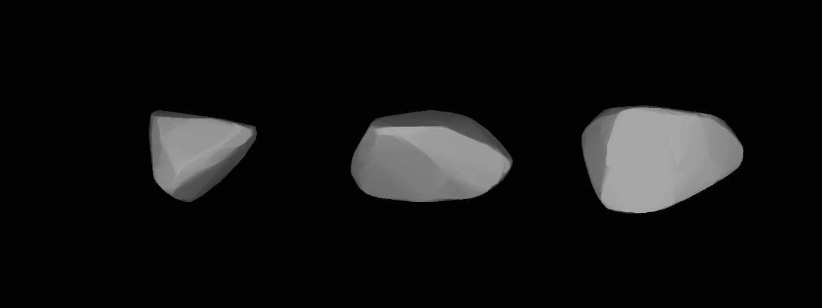 A three-dimensional model of 1490 Limpopo that was computed using light curve inversion techniques.